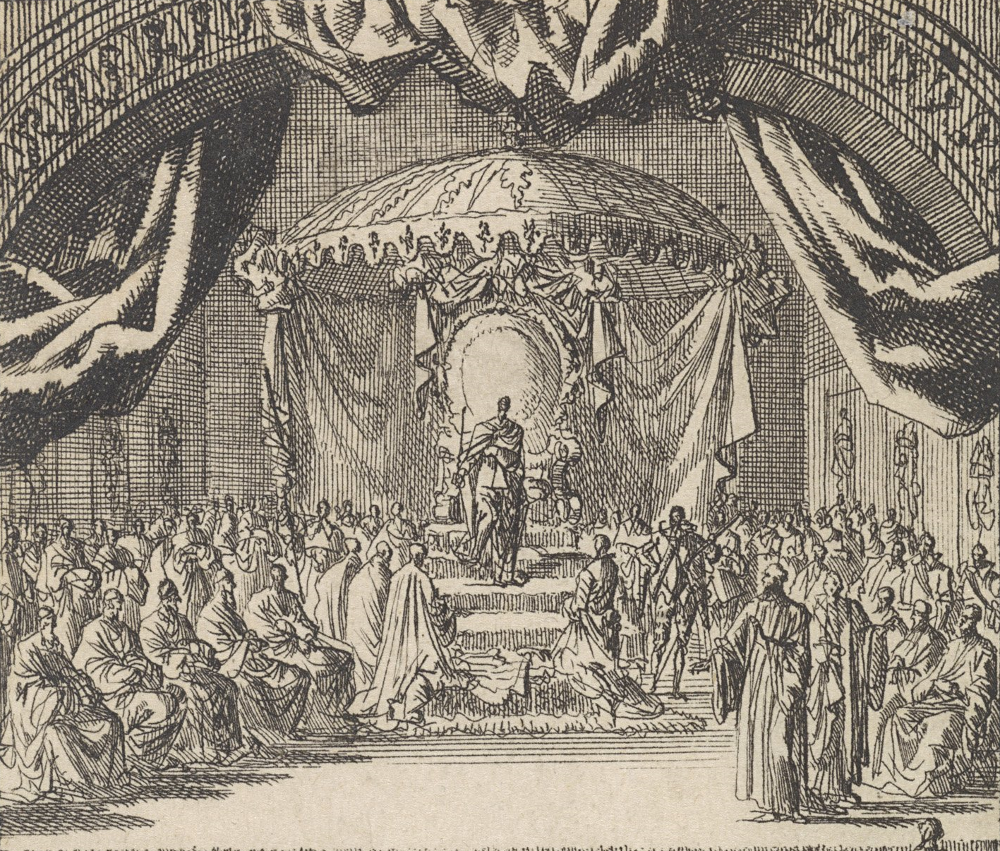 Philip II of Spain is recognised as King of Portugal, as Philip I, by the Portuguese Cortes of Tomar in 1581.